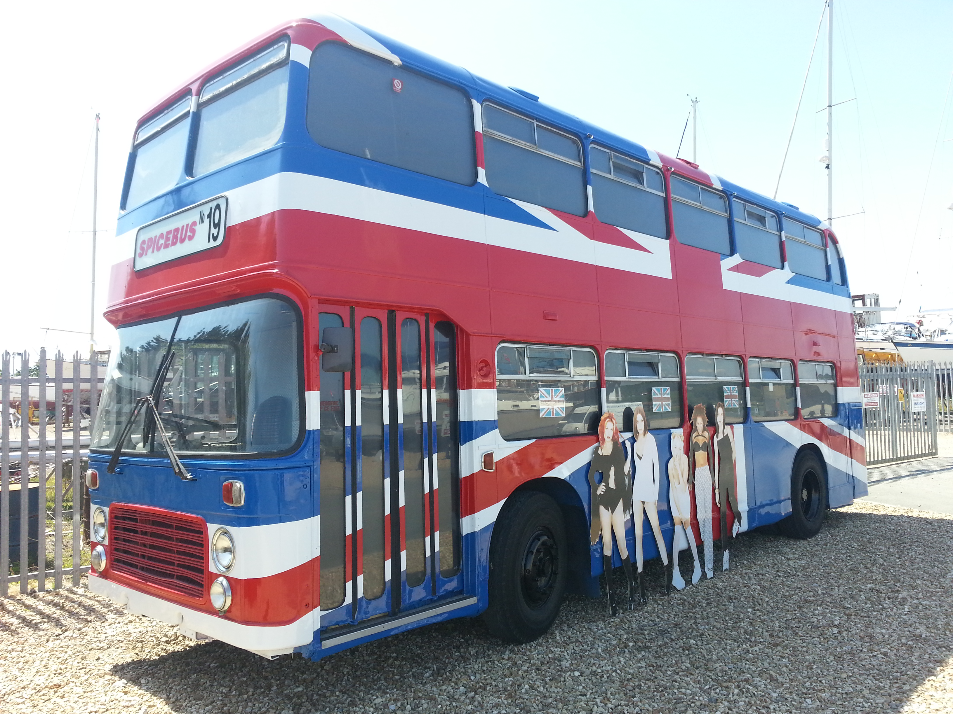 The actual Spice Bus from the film Spice World